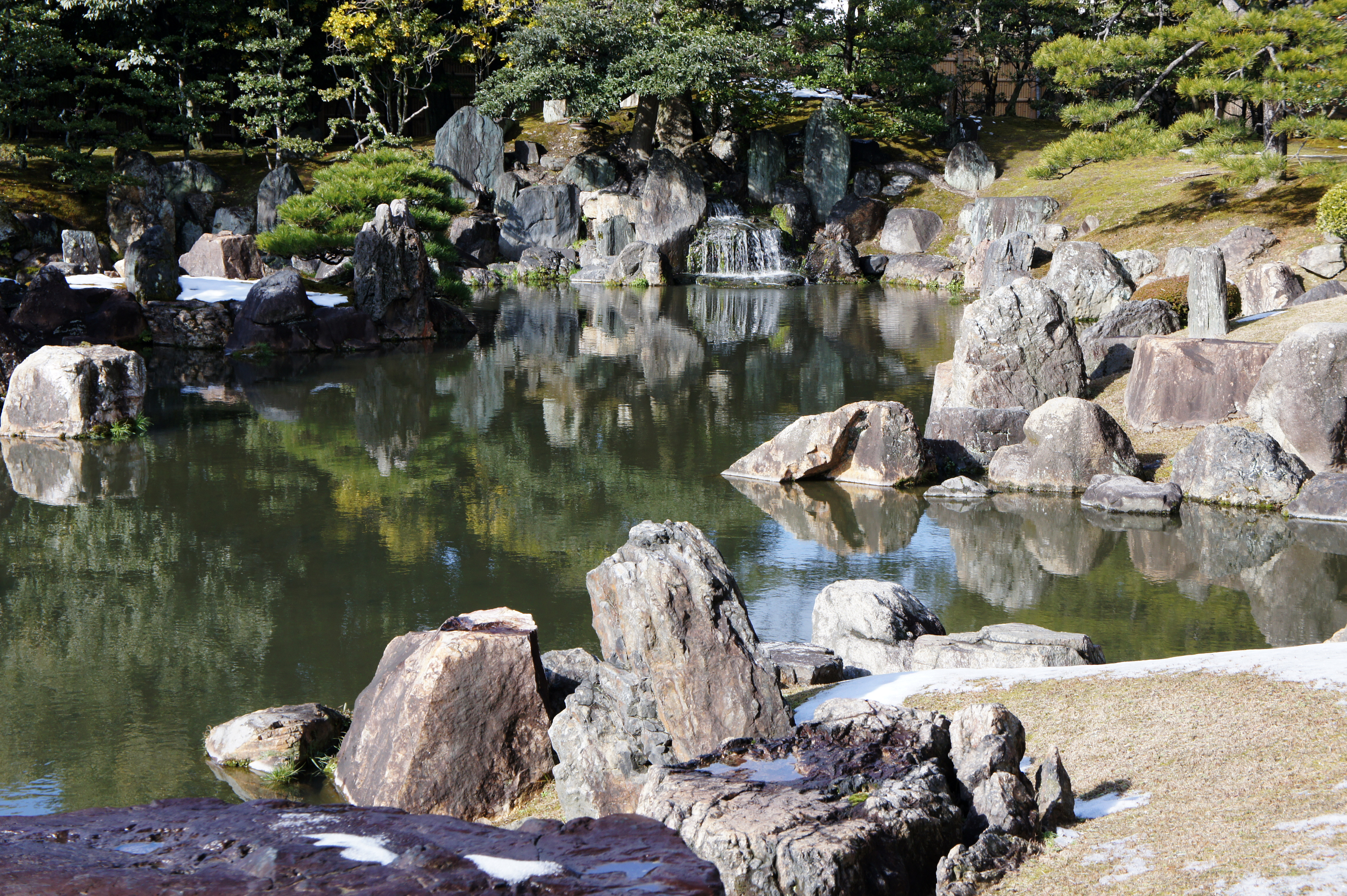 Nijō Castle's Ninomaru Garden is the Japan's Special Places of Scenic Beauty in Kyoto, Kyoto Prefecture, Japan. Nijō Castle was registered as part of the UNESCO World Heritage Site "Historic monuments of ancient Kyoto".